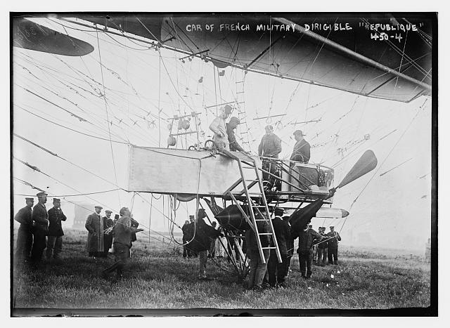 French Military dirigible "République"